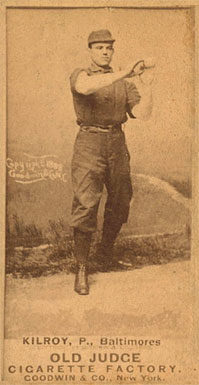 Old Judge baseball card of Matt Kilroy